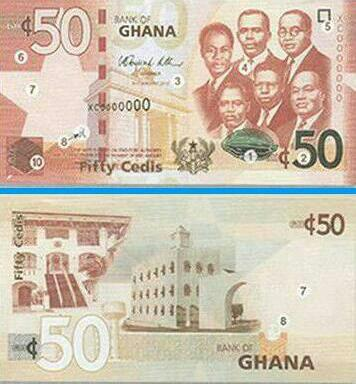 50 Ghana Cedis banknote